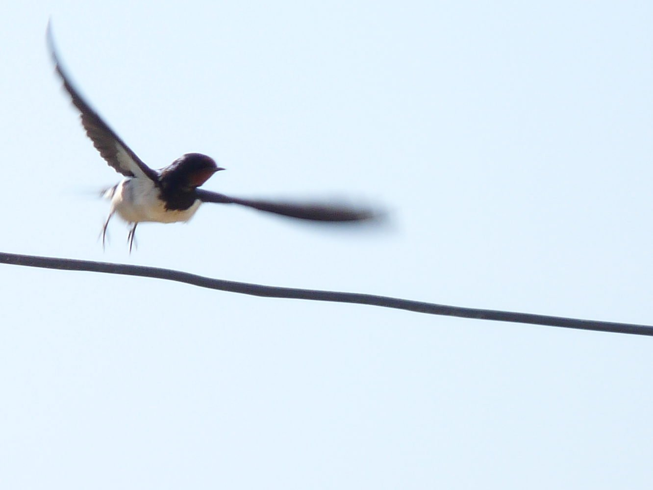 Hirundo rustica Jumping to fly